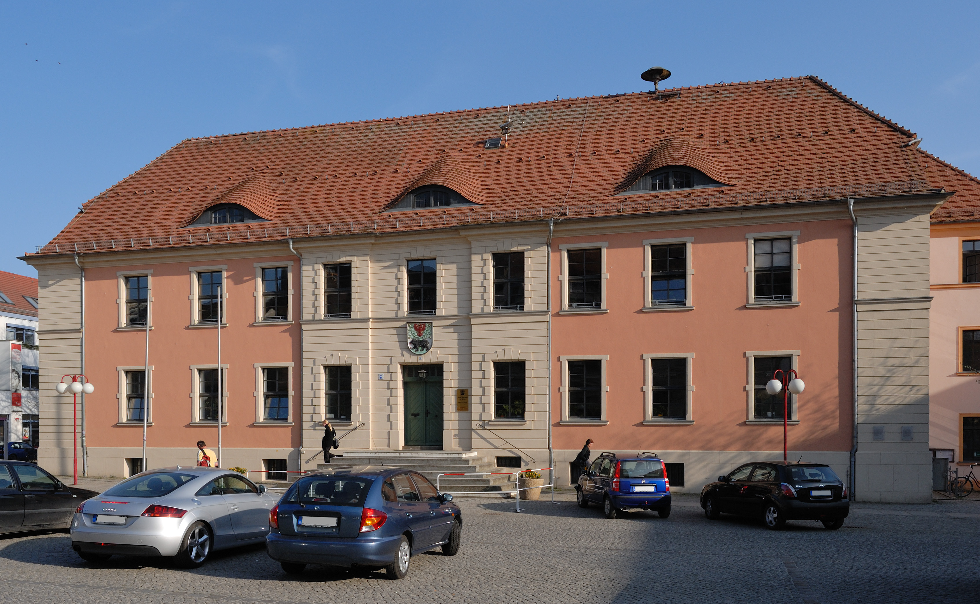 Town hall Bernau near Berlin.